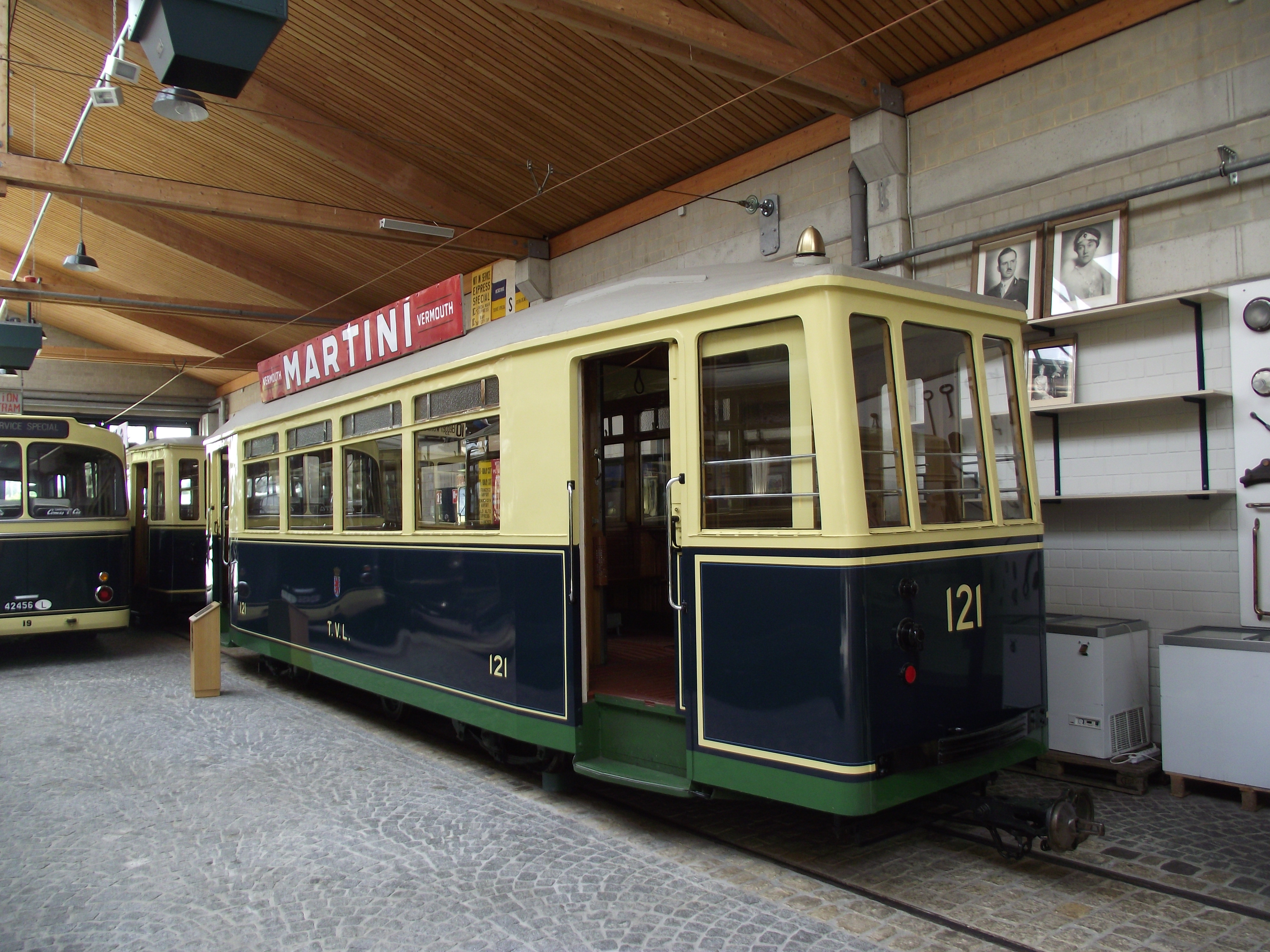 Trammuseum of Luxemburg